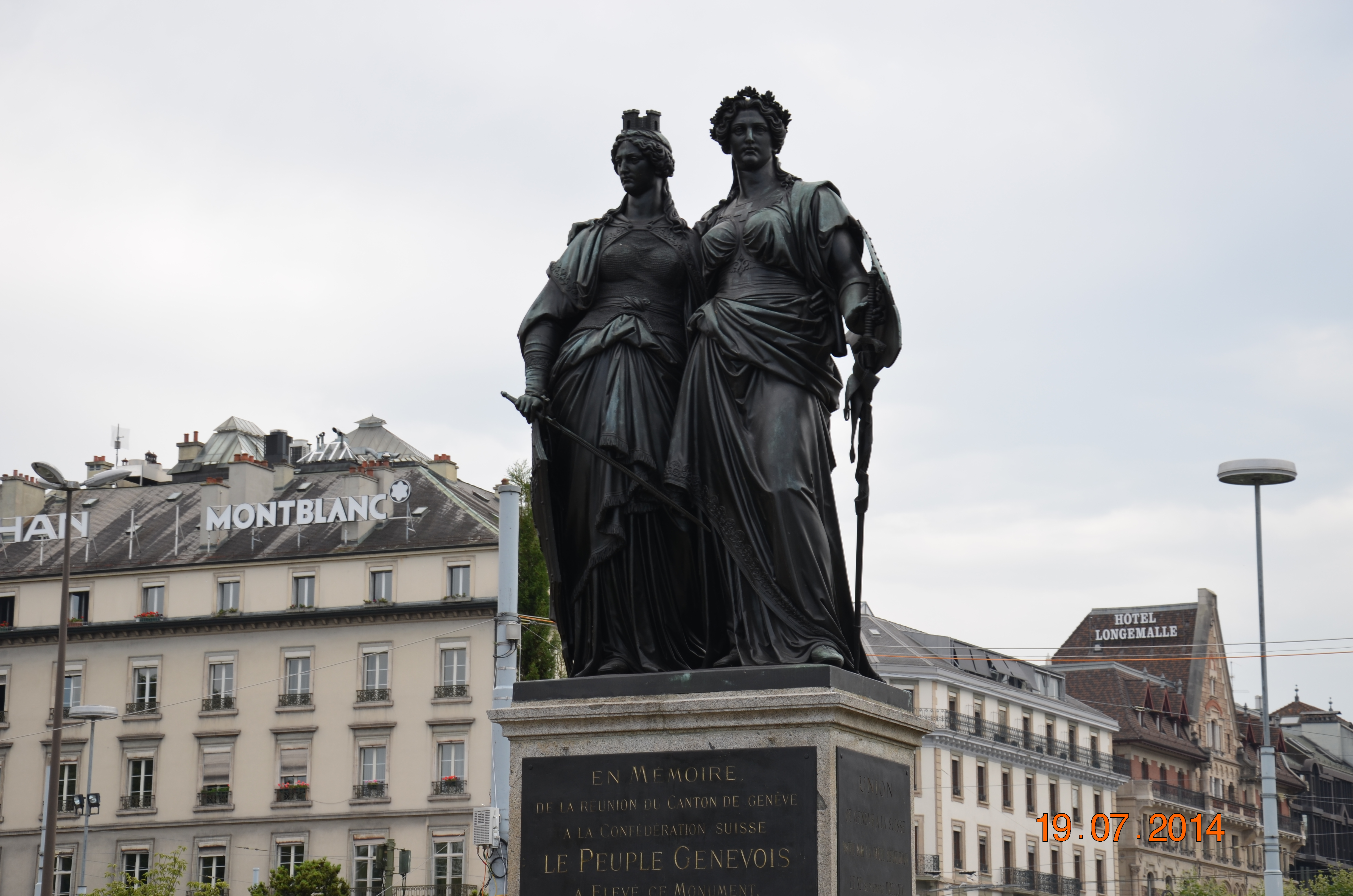 The People Of Geneva Monument near the Flower Clock at the Jardin Anglais